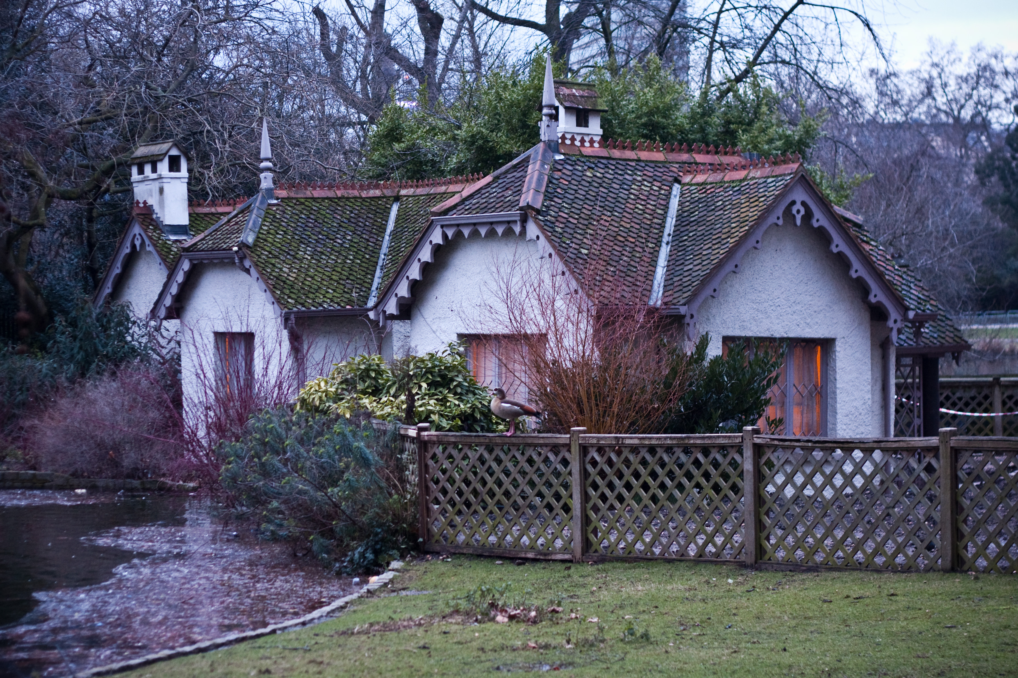 Duck Island Cottage in St James's Park, London, England, a little after sunset. On the fence sits an Egyptian Goose (Alopochen aegyptiacus).